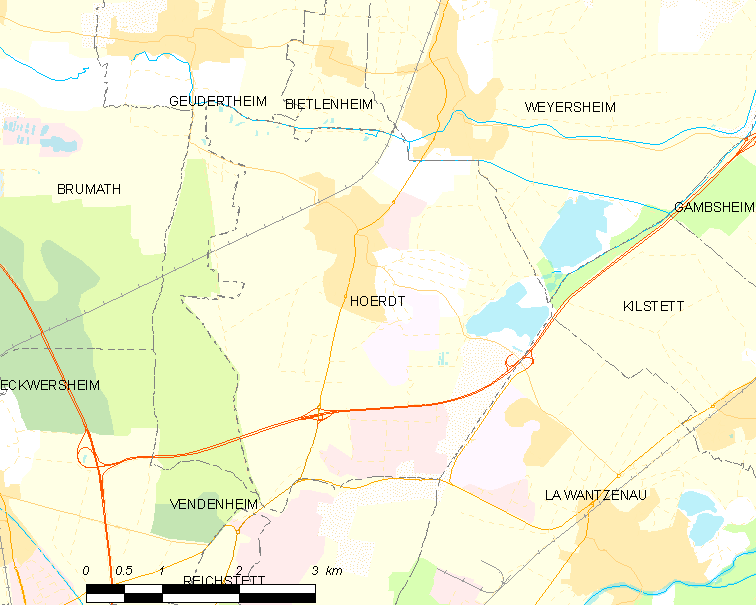 Map of French municipality